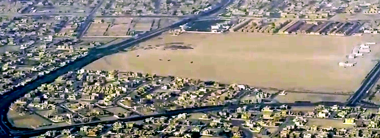 Aerial view of northern Doha, specifically the Jelaiah area.